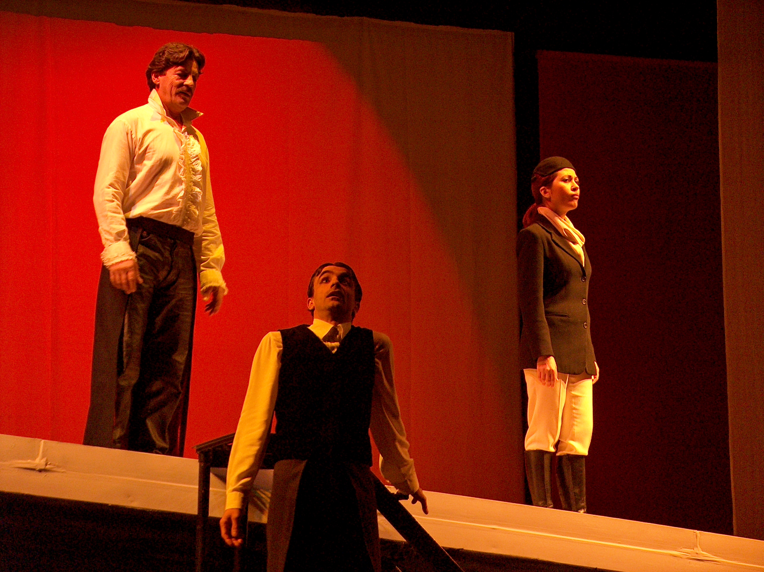 Theofilos association don Juan stage play